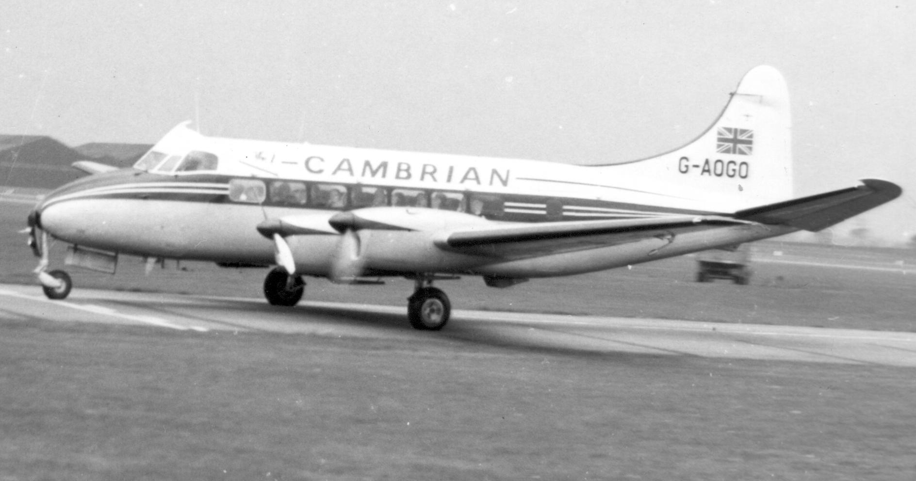 de Havilland DH.114 Heron 2 of Cambrian Airways